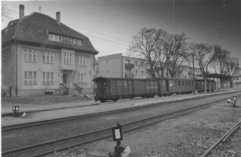 Średzka District Railway (narrow gauge) - Środa Miasto station